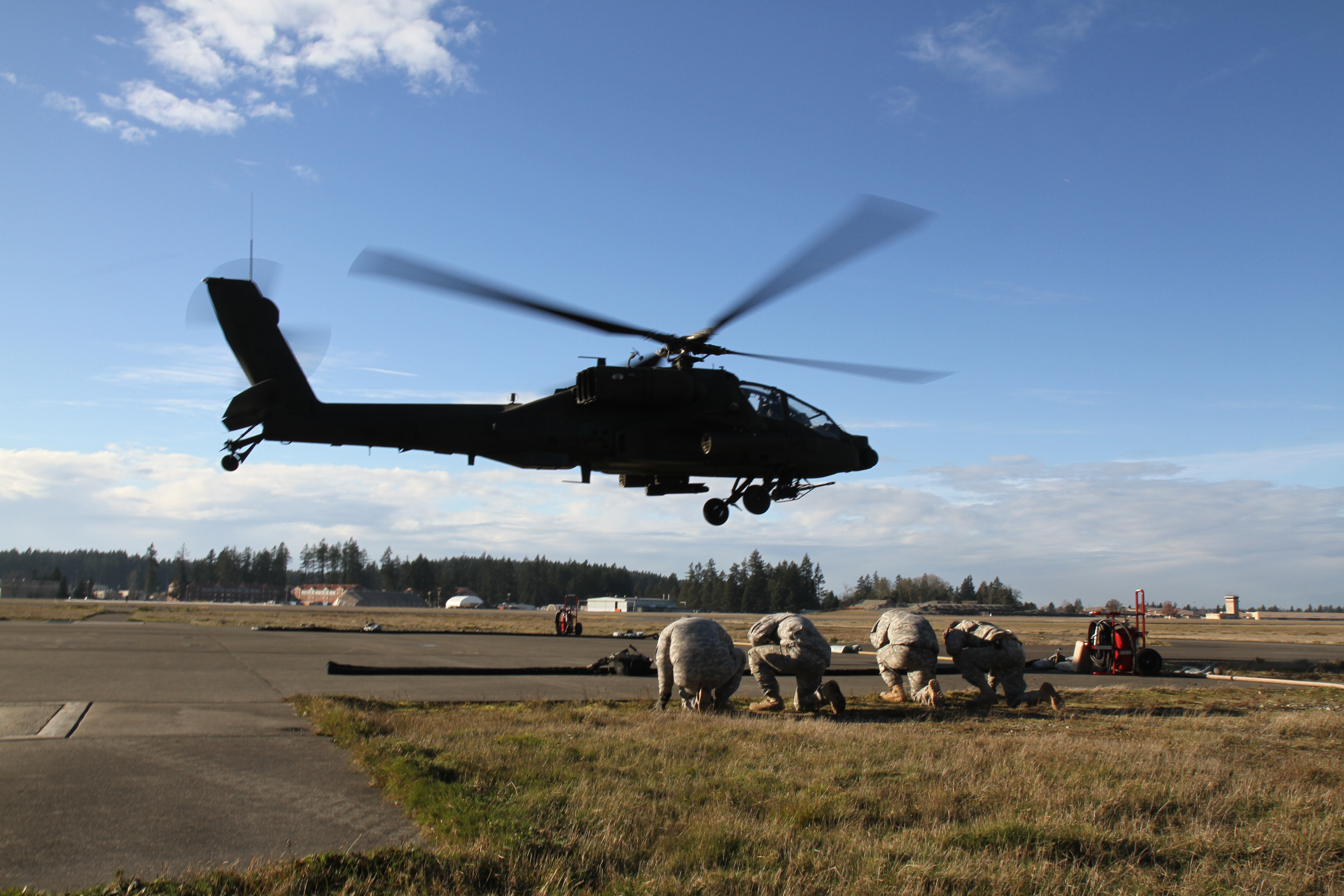 A U.S. Army AH-64E Apache helicopter takes off after Soldiers assigned as petroleum supply specialists with the 16th Combat Aviation Brigade, 7th Infantry Division, conduct hot refuel training at Joint Base Lewis-McChord, Wash., Nov. 26, 2013.